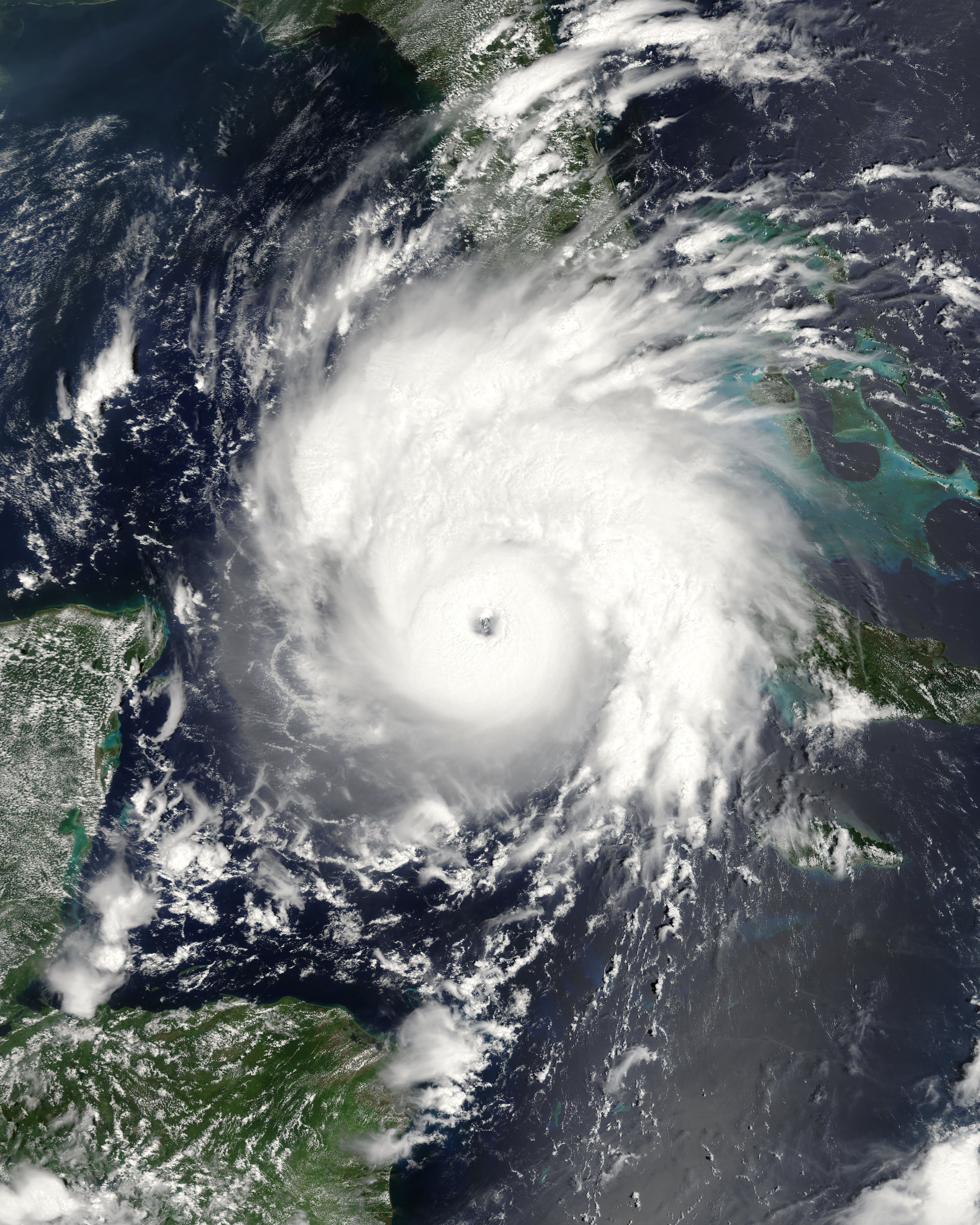 Hurricane Gustav near peak intensity, approaching Cuba on August 30.